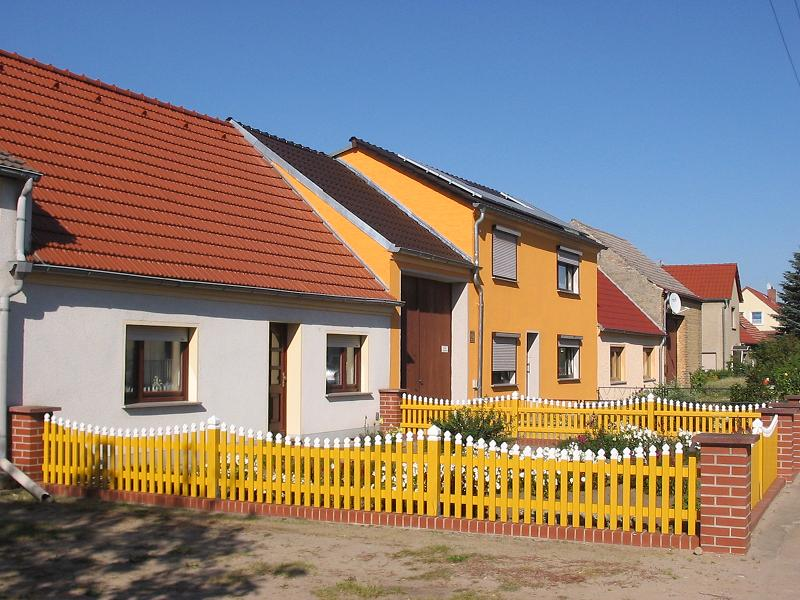 Buildings Dorfstraße (german for villagestreet ) No. 25,24,23 ... in Gömnigk. The village Gömnigk is a part of the town Brück in the district Potsdam Mittelmark, state Brandenburg, Germany, at the border to the natural preserve Naturpark Hoher Fläming.